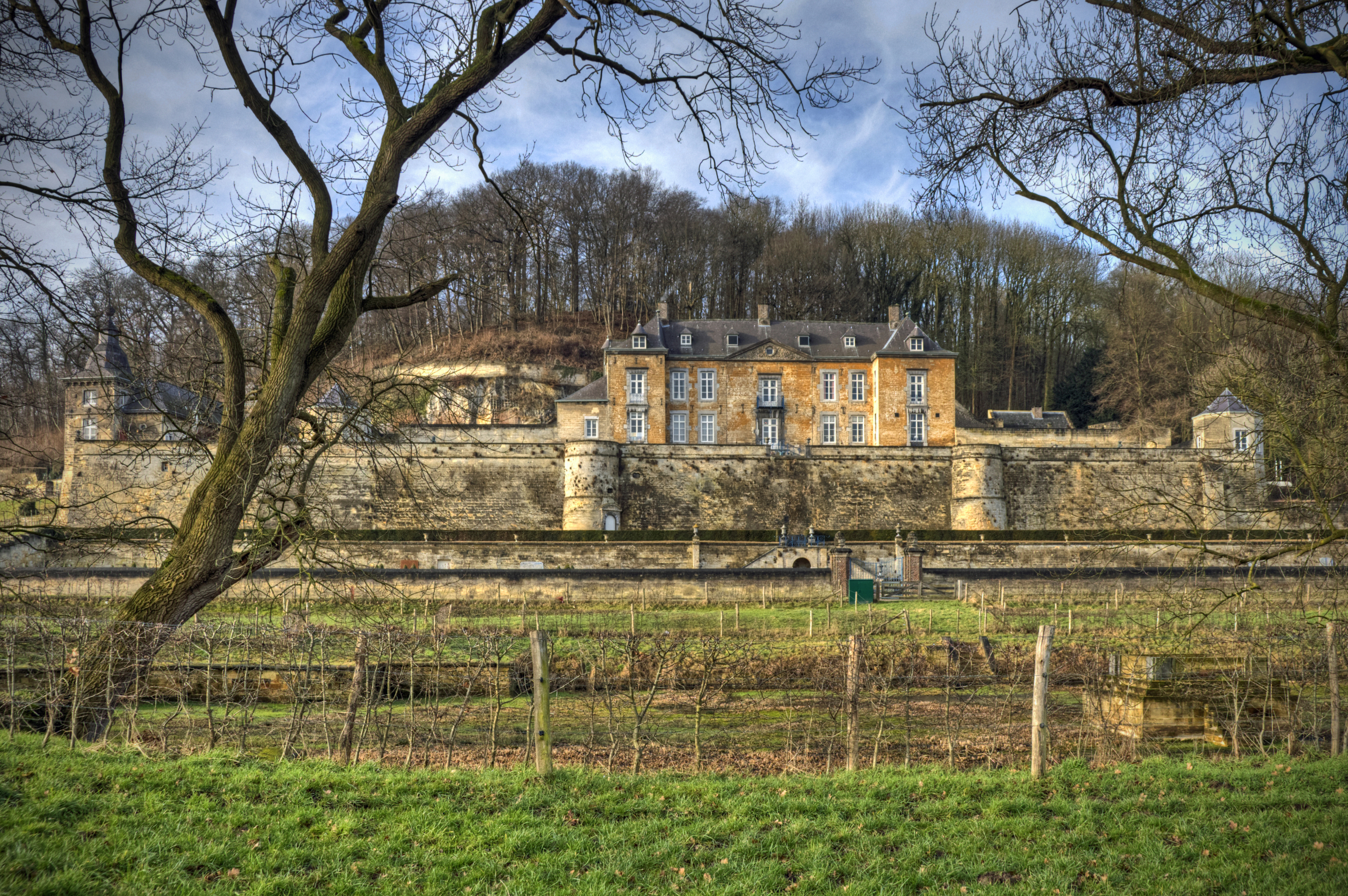 Chateau Neercanne near Maastricht is the only terraced castle in the Netherlands. It houses a Michelin start restaurant where you can combine fine dining with a lovely view. Also, the castle produces it own wines and has an impressive wine cellar.